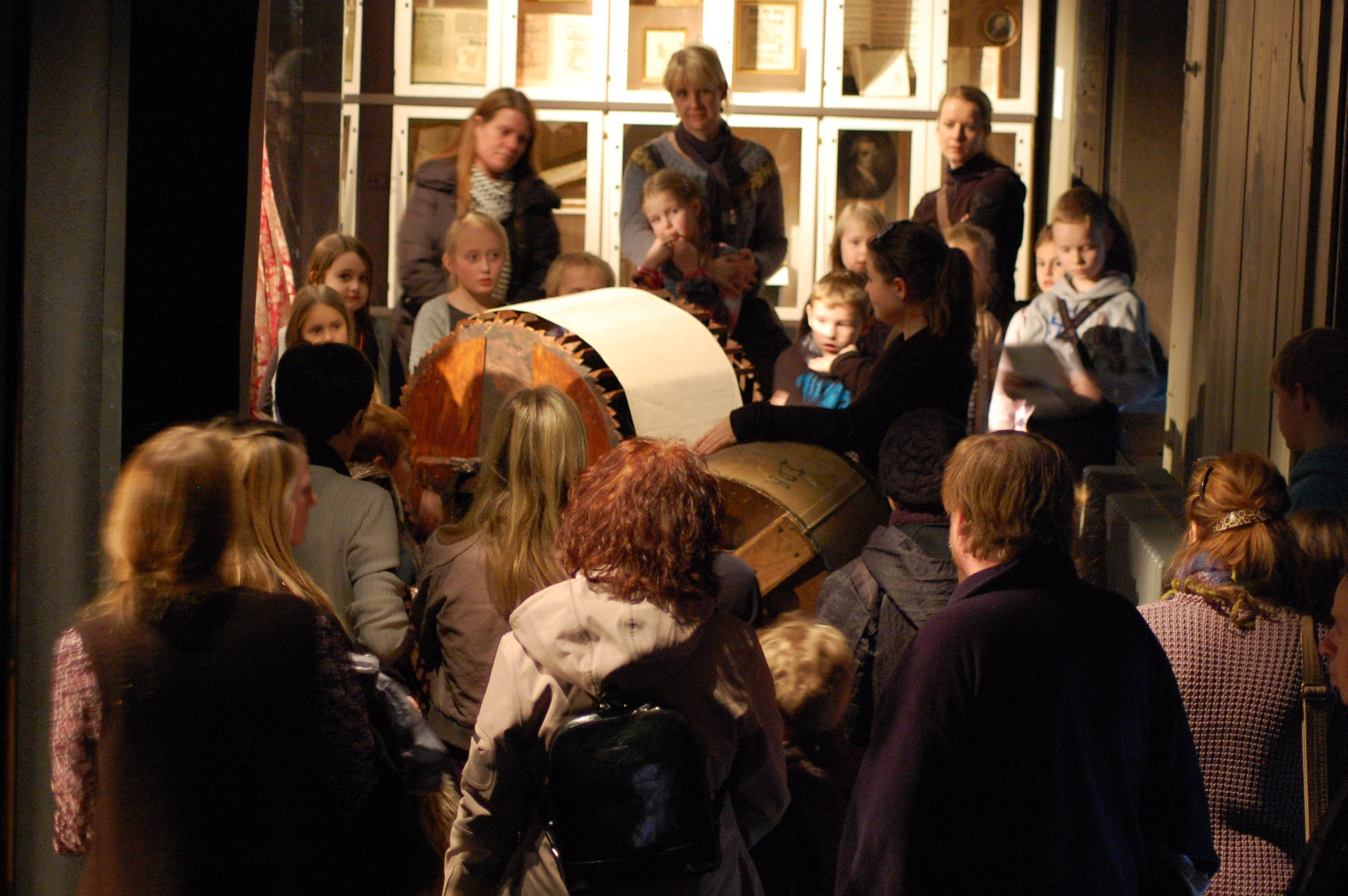 Guided tour at the Theatre Museum at the Court Theatre